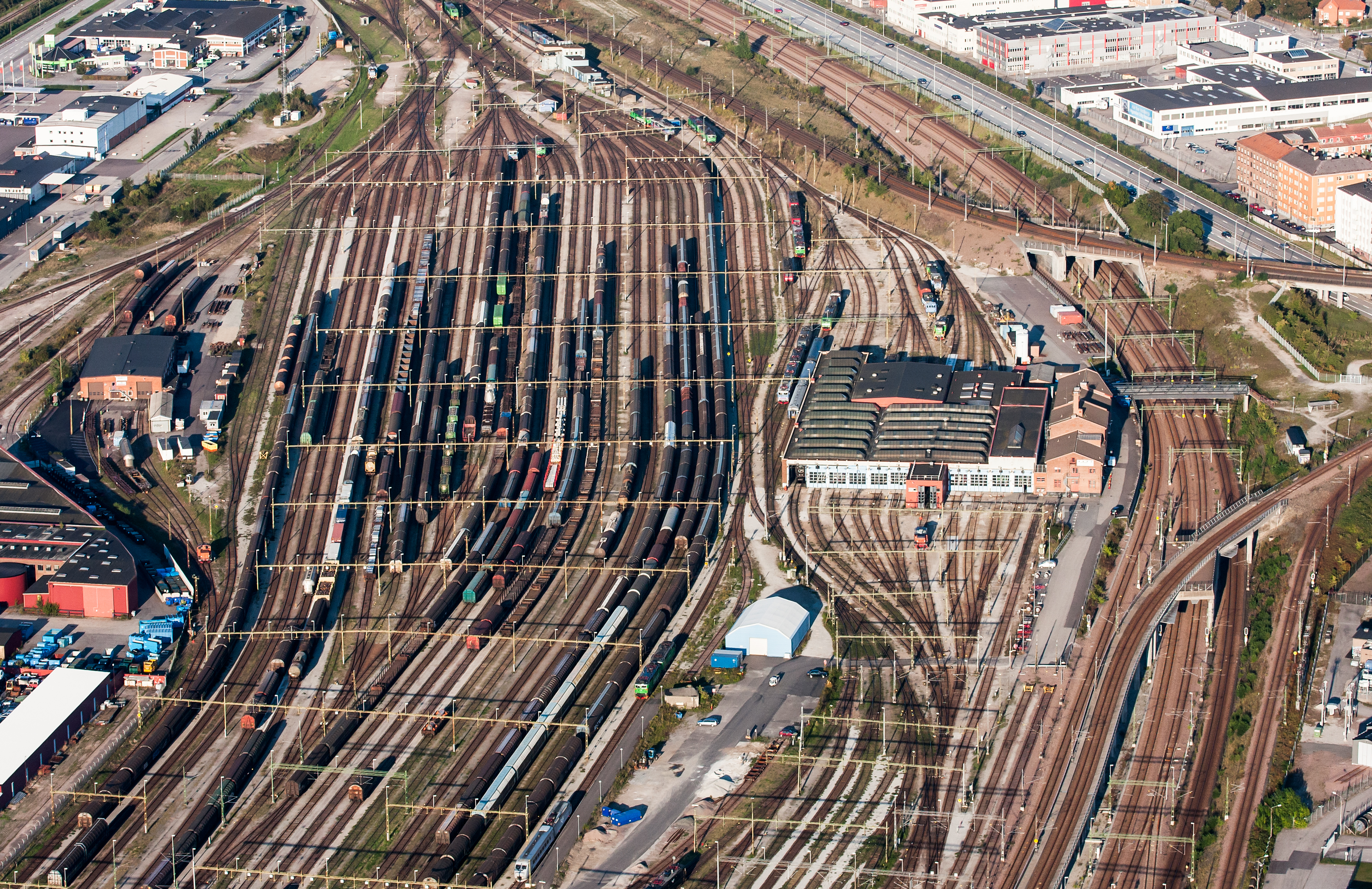 The rail yard at Malmö Central Station, Sweden